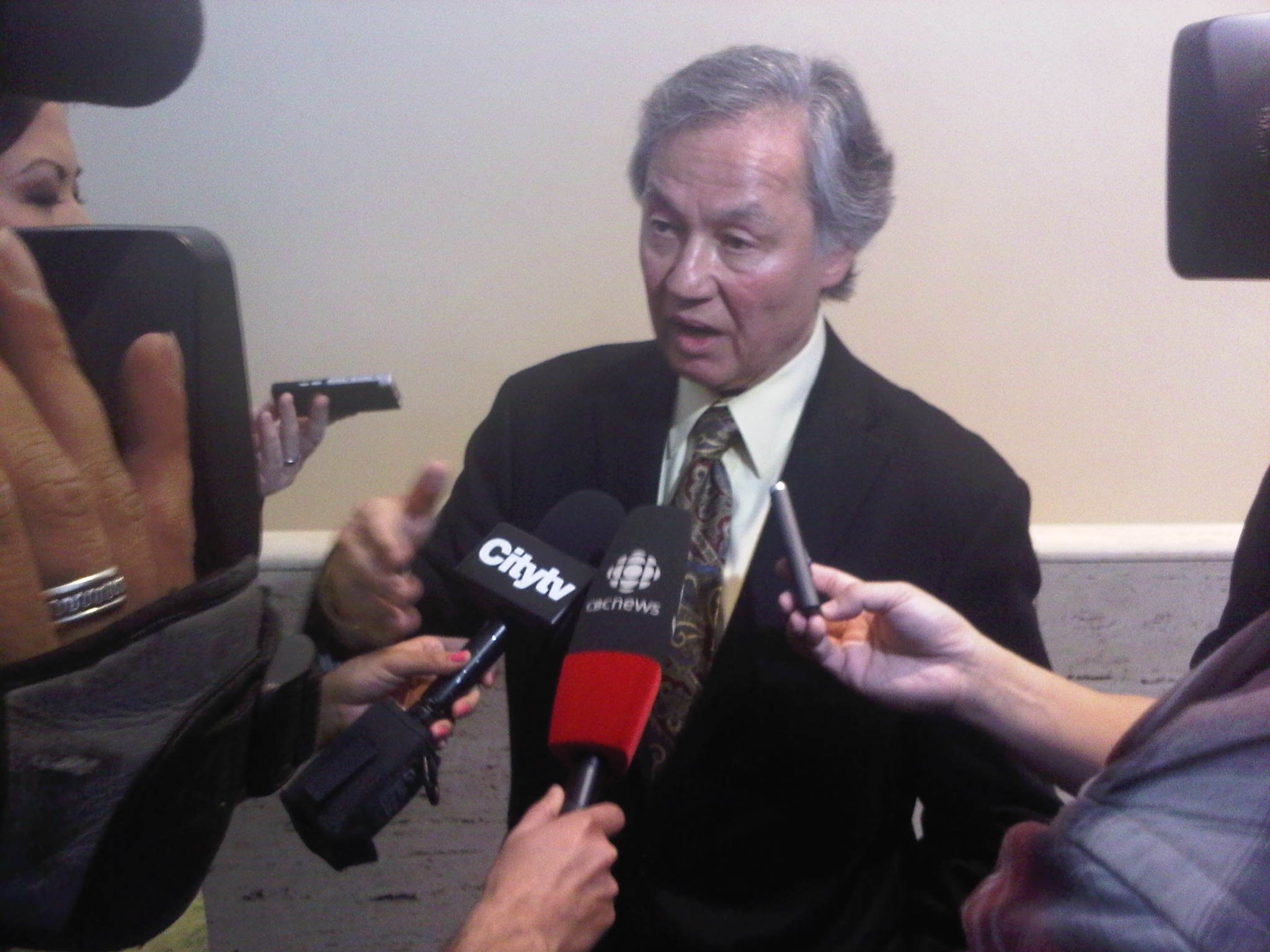 Gordon Chong - Dissenting Opinion in favour of Sheppard Subway Extension - Expert Transit Panel Report Released, LRT or Subway on Sheppard Avenue East, City Hall Members Lounge, Toronto Ontario Canada, Friday March 16 2012